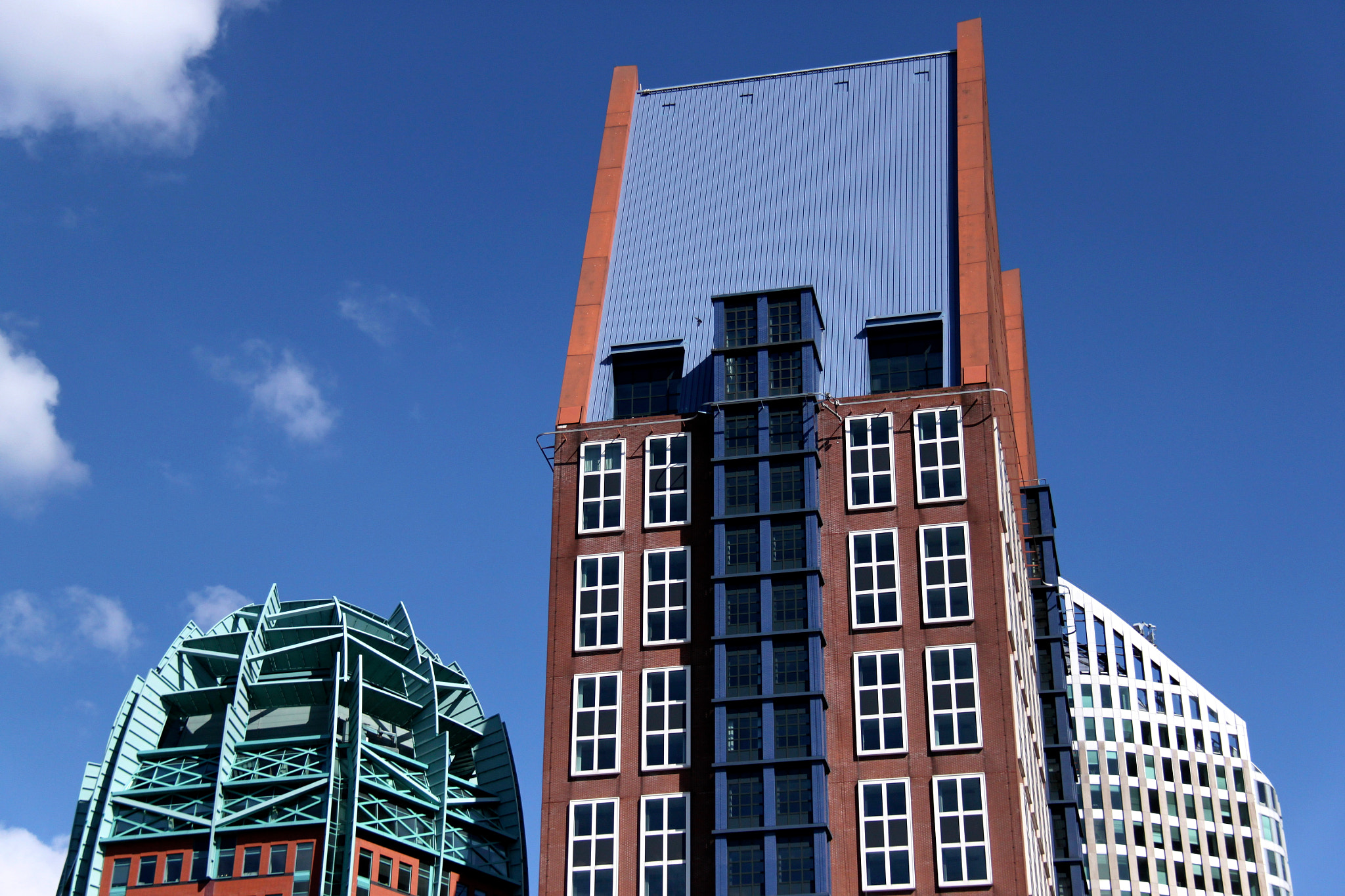 500px provided description: 'Skyscrapers' in the centre of The Hague, The Netherlands. Of left: *Zurichtoren (88 meters), designed bij C?sar Pelli, an Argentine American architect. The building is home to the Zurich Insurance Group Ltd. *Castalia (104 meters) was designed by the American architect Michael Graves and home to the Ministry of Health, Welfare and Sport. *The Hoftoren (141.86 meters), designed by Kohn Pedersen Fox Associates (KPF) in New York City and home to the Ministry of Education, Culture and Science. [#architecture ,#skyscrapers ,#architectuur ,#Kohn Pedersen Fox Associates ,#The Hague ,#Nederland ,#The Netherlands ,#Den Haag ,#C?sar Pelli ,#Zurichtoren ,#Zurich Insurance Group Ltd. ,#Castalia ,#Michael Graves ,#The Hoftoren]